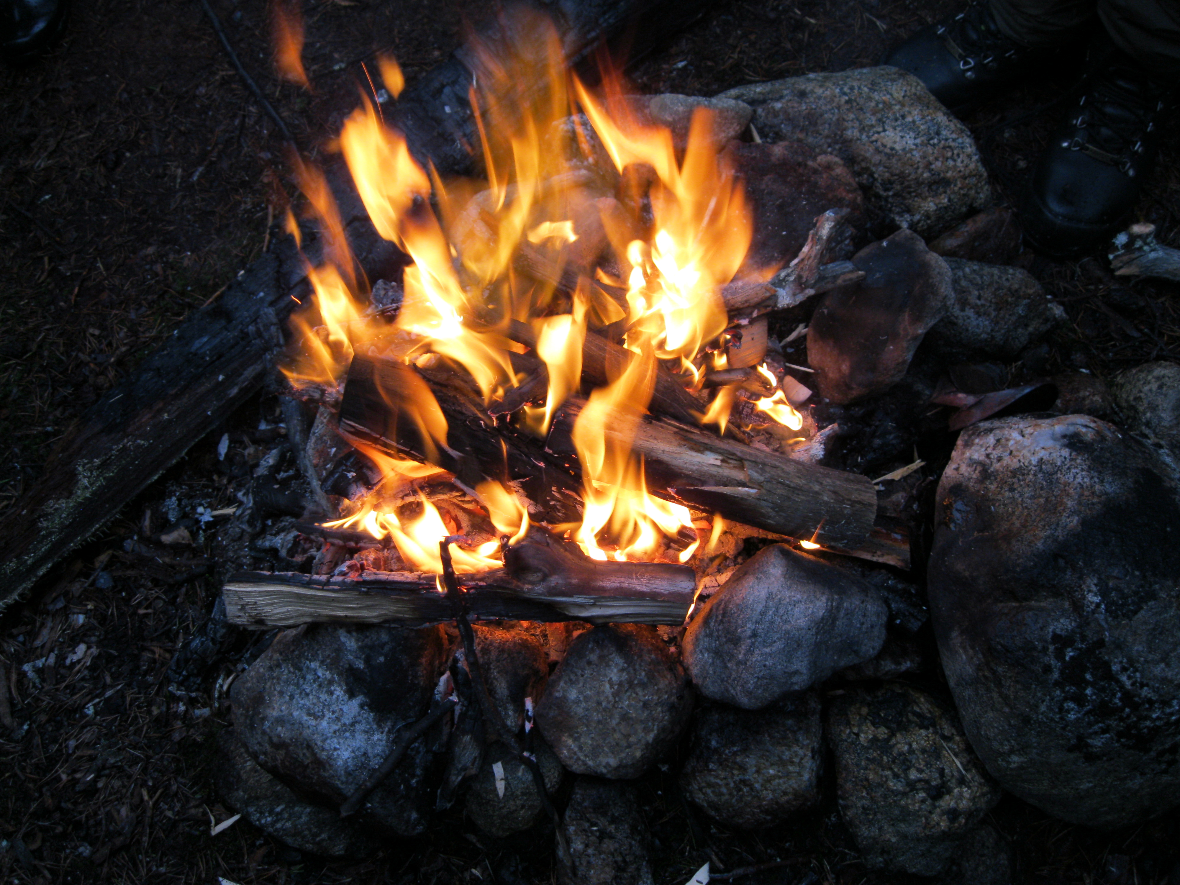 Campfire